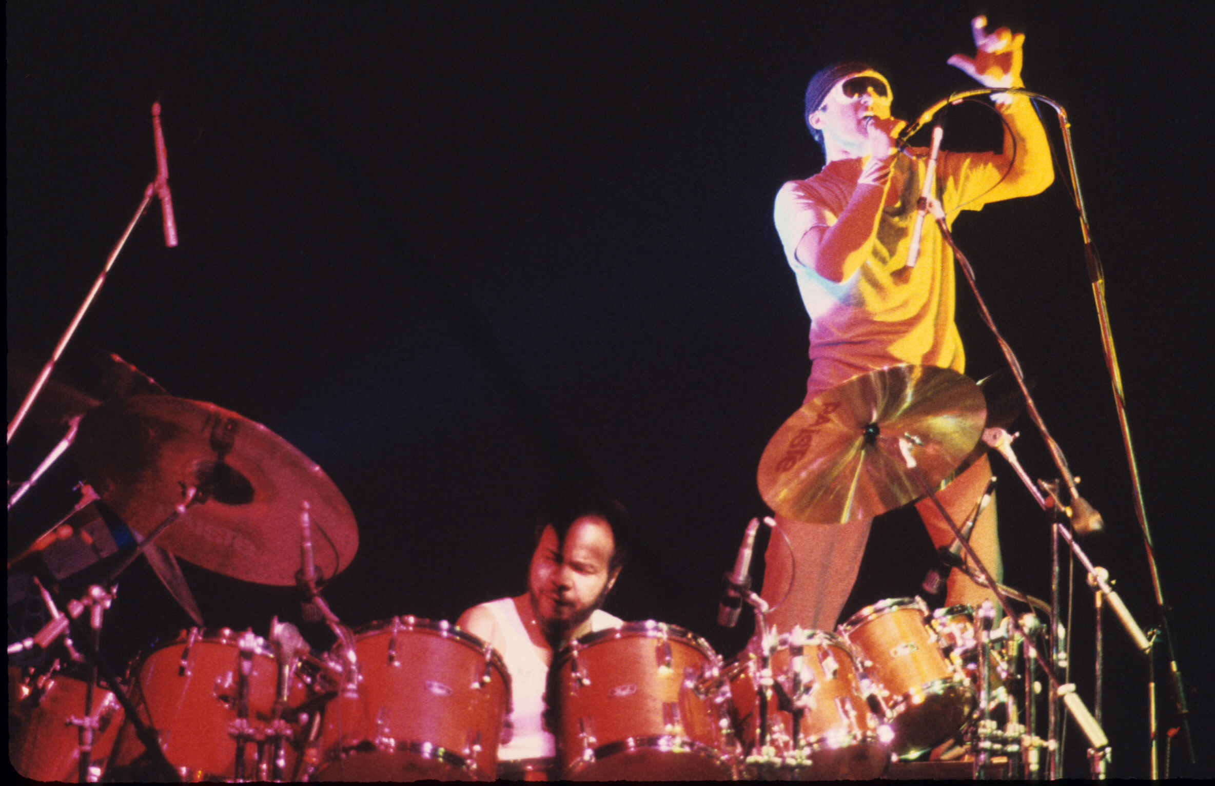 Strasbourg-1981-10-28-29